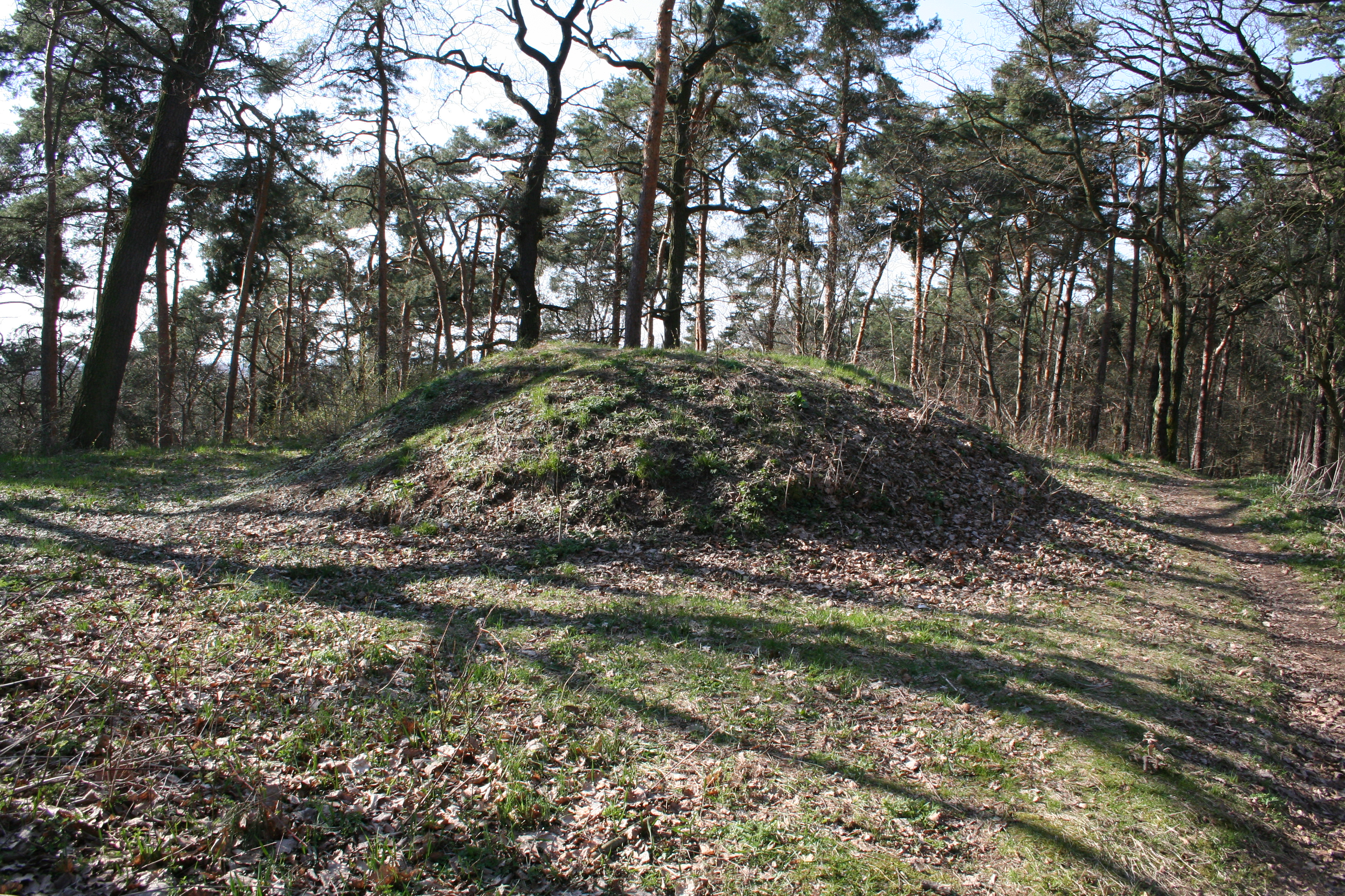 Burial mound 1 at Dölauer Heide, Halle (Saale)